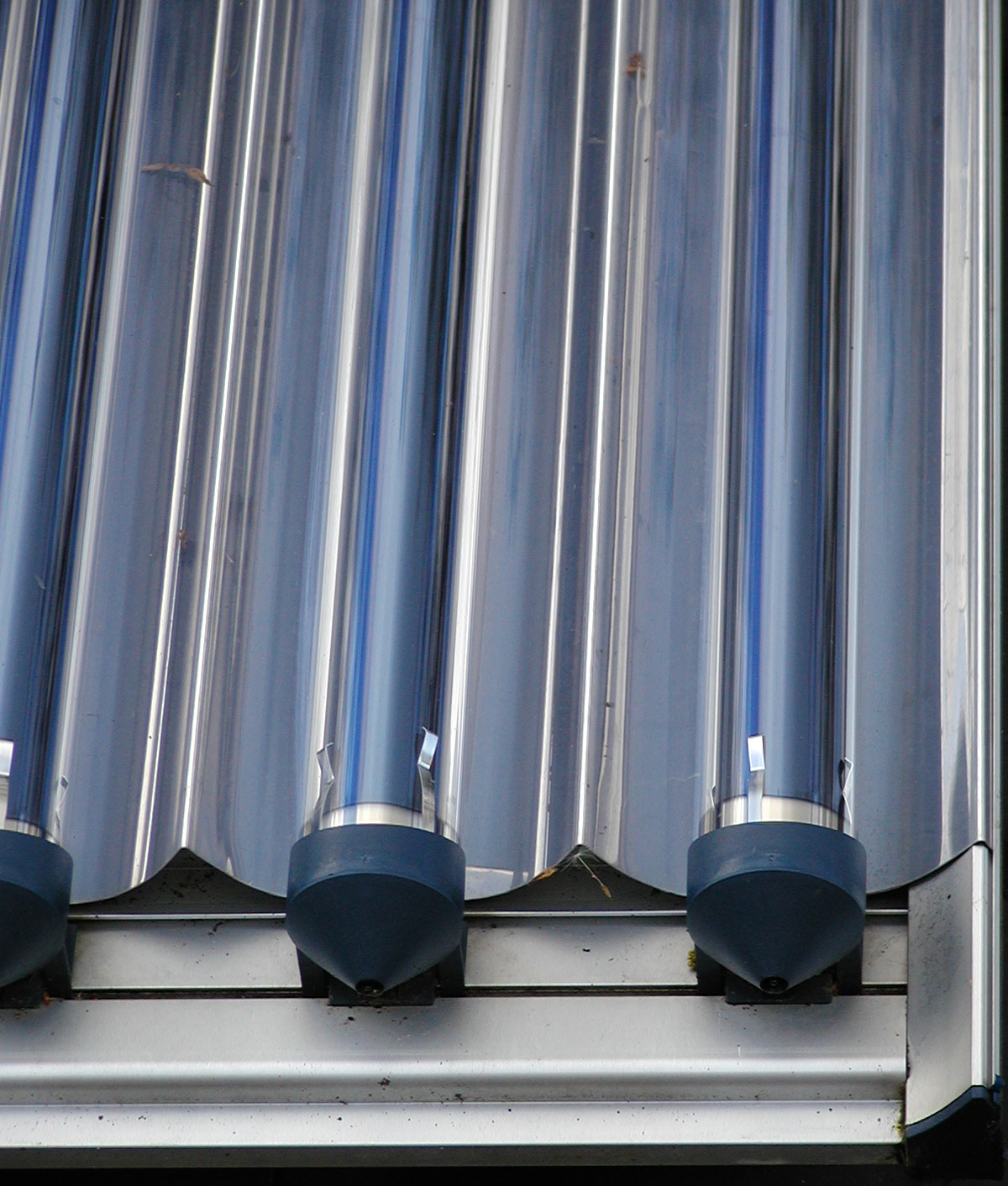 Vacuum tube hot water heater